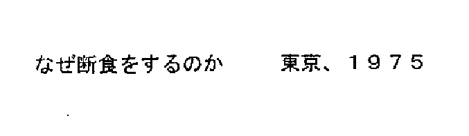 Japanese Translated Book of Dr Muhammad Hamidullah- 1975